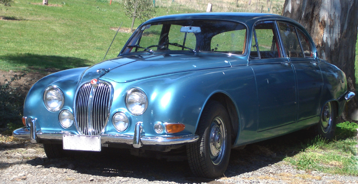 Jaguar S-Type in blue metallic